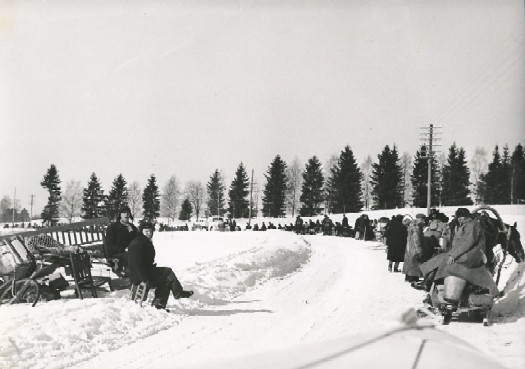 Evacuees from Finnish Karelia going to Western Finland, after their homes were ceded to the Soviet Union in 1940.